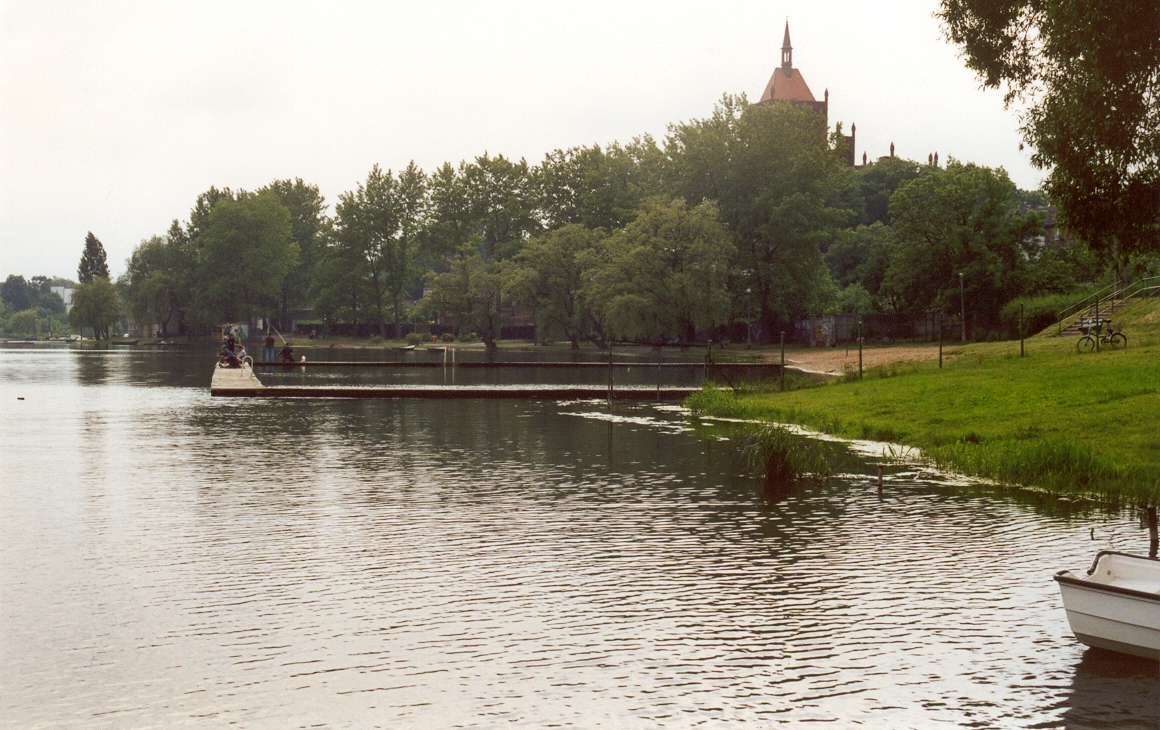 Chelmza, Jezioro Chełmżyńskie: Lakeshore at suburb, next to near market square: beneath Saint Nicholas Church. point of view approx.